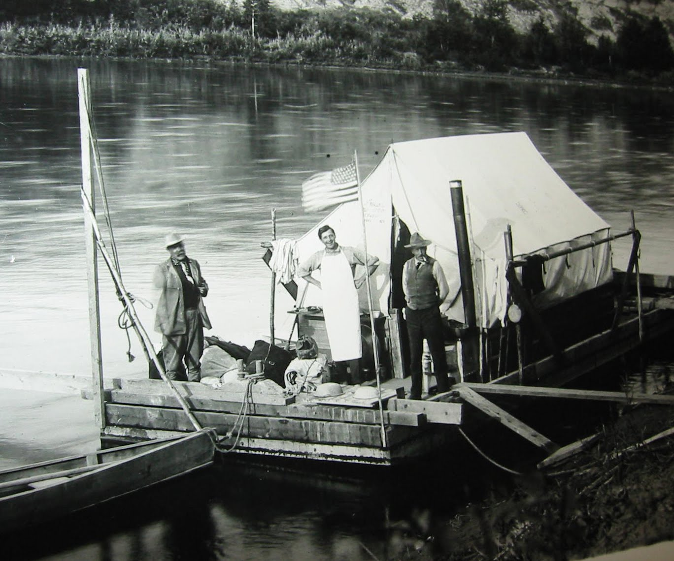 The AMNH scow Mary Jane in 1911. This is determined by the larger "flagpole" seen on the left. This was only present in 1911. Left to right: Henry Fairfield Osborn (AMNH); Fred Saunders (cook from Stettler, Alberta) and Barnum Brown (AMNH).